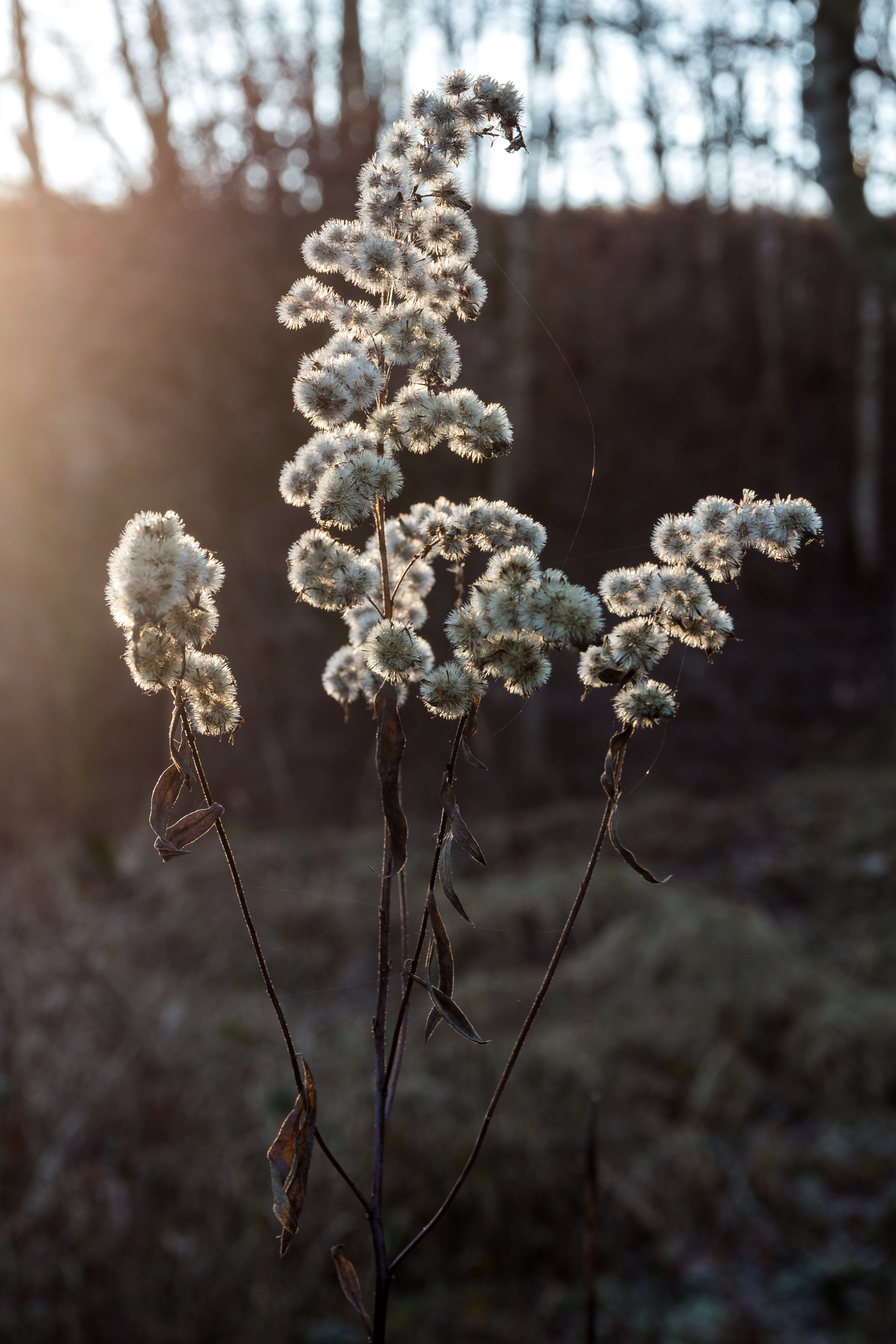 Panicled aster in Nature reserve “Westruper Heide”, Haltern am See, North Rhine-Westphalia, Germany